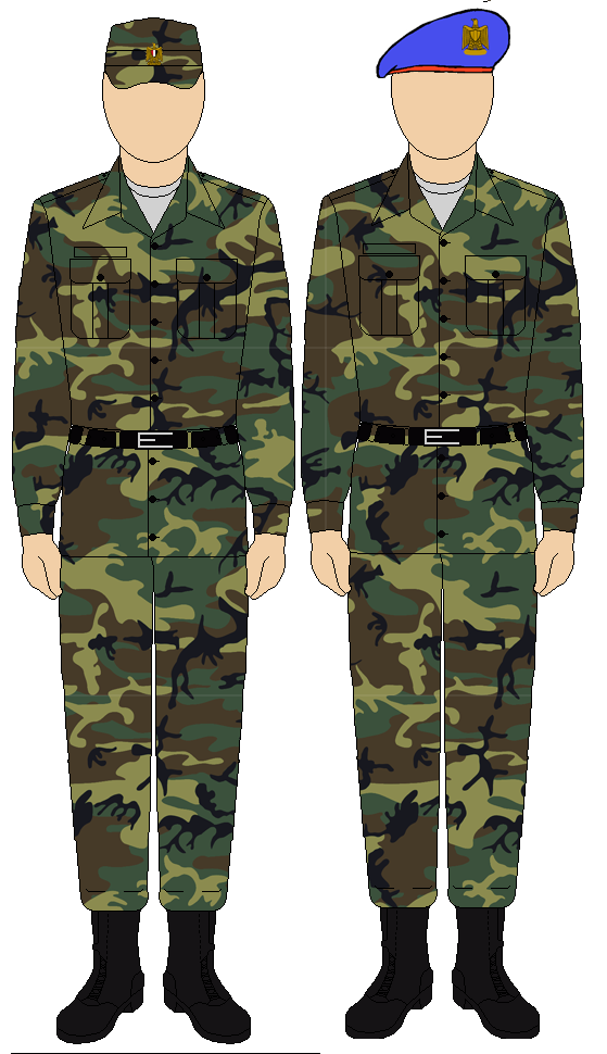 Egyptian Republican Guard camouflage uniform